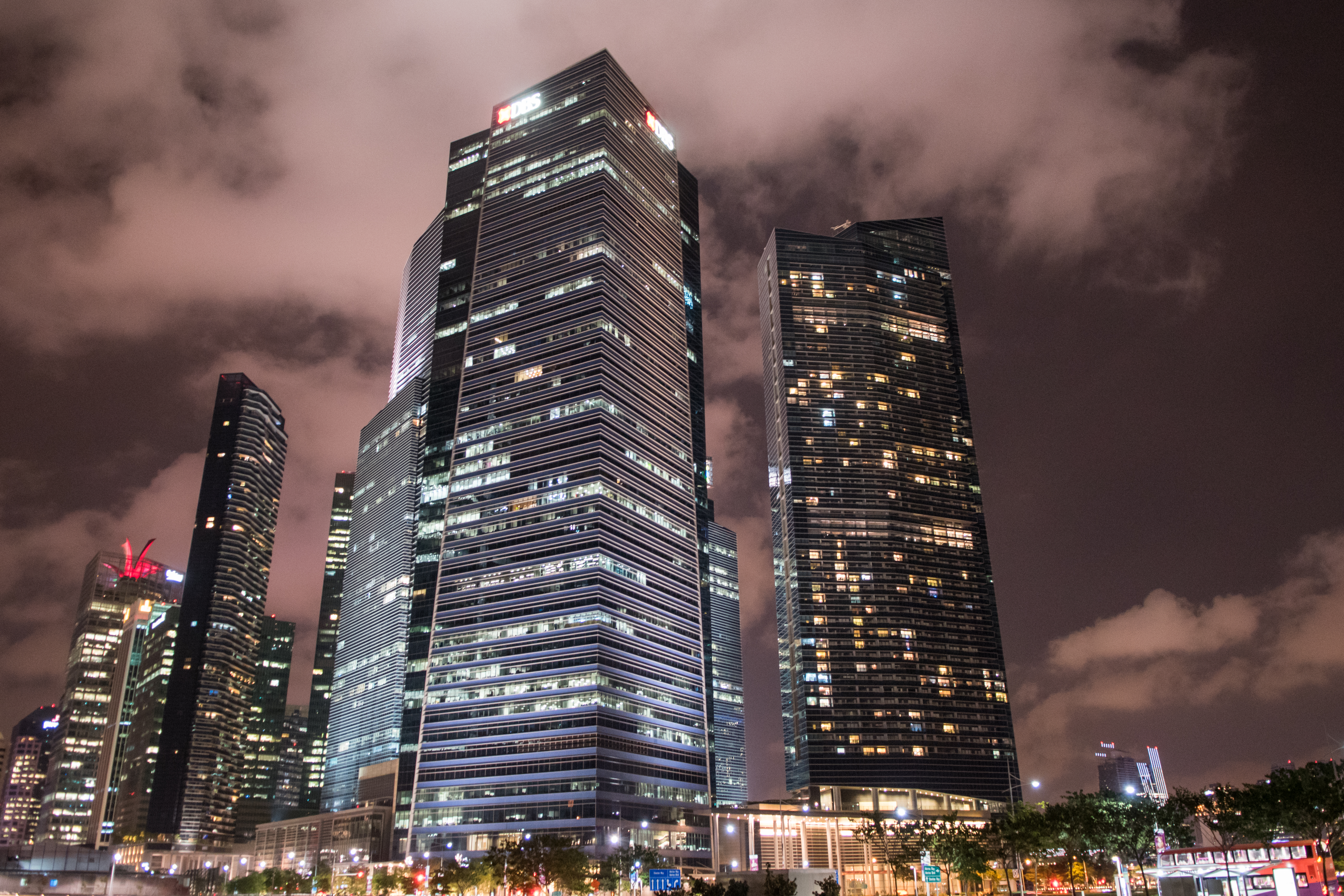 Singapur financial district by night Singapur